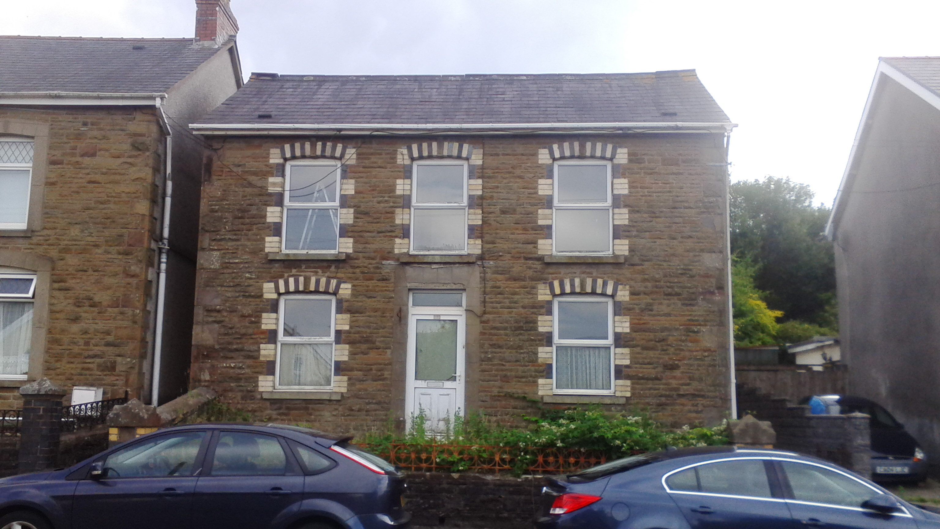 Birthhouse of Welsh musician and composer John Cale (237 Cwmaman Road, Garnant, Carmarthenshire)